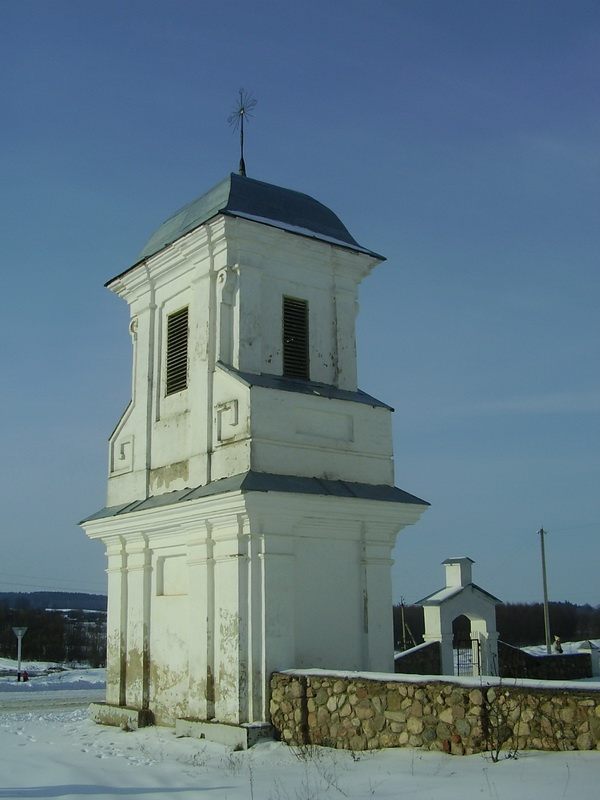 Bell tower of Saint Nickolas Roman Catholic church, Lukonica village, Zeĺva District